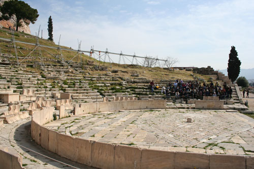 Ron Waller, personal photograph - Theatre of Dionysos, Acropolis, Athens (April 2006)